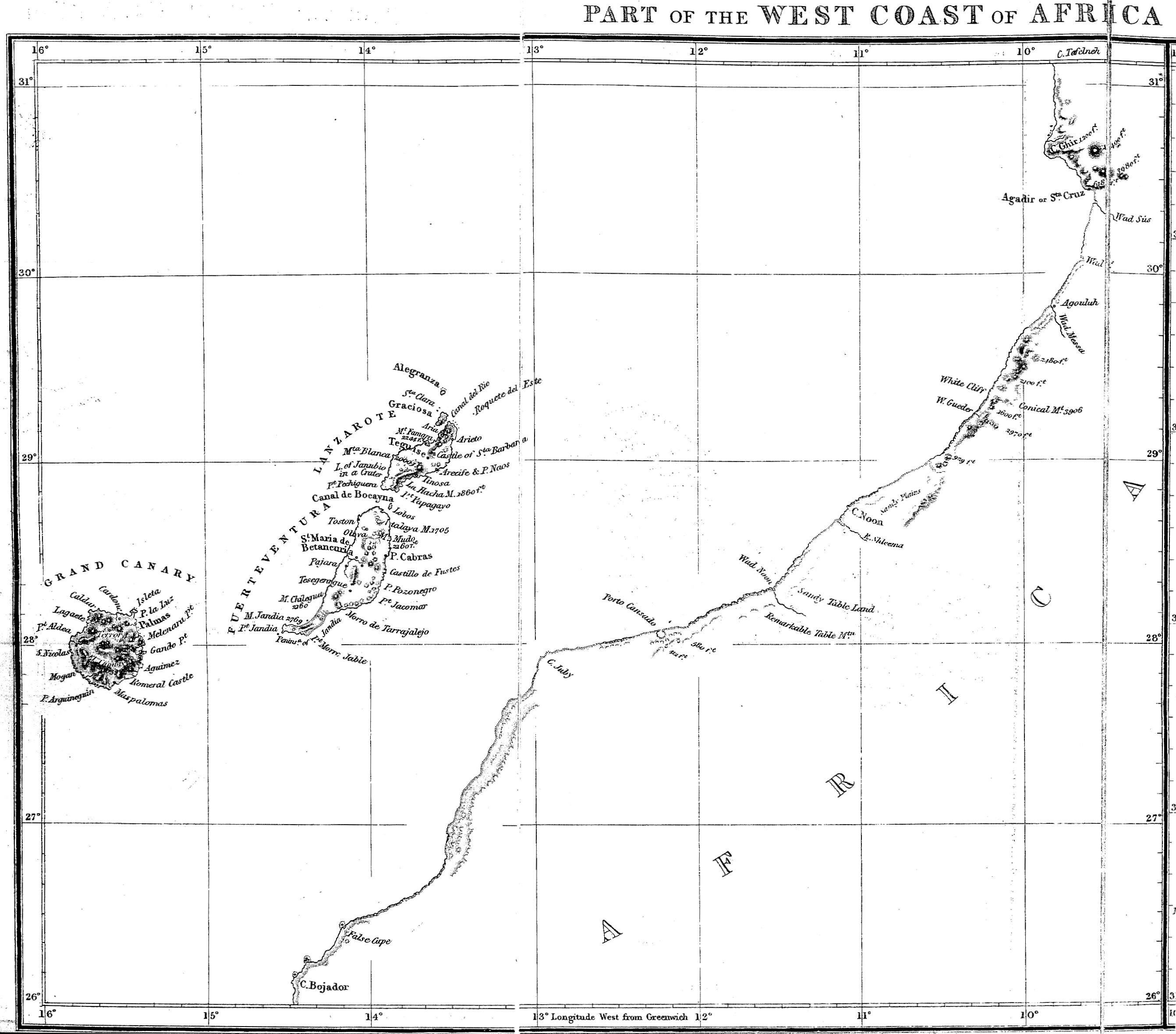 Part of the West coast of Africa, with Cape Noon and some of the Canary islands.